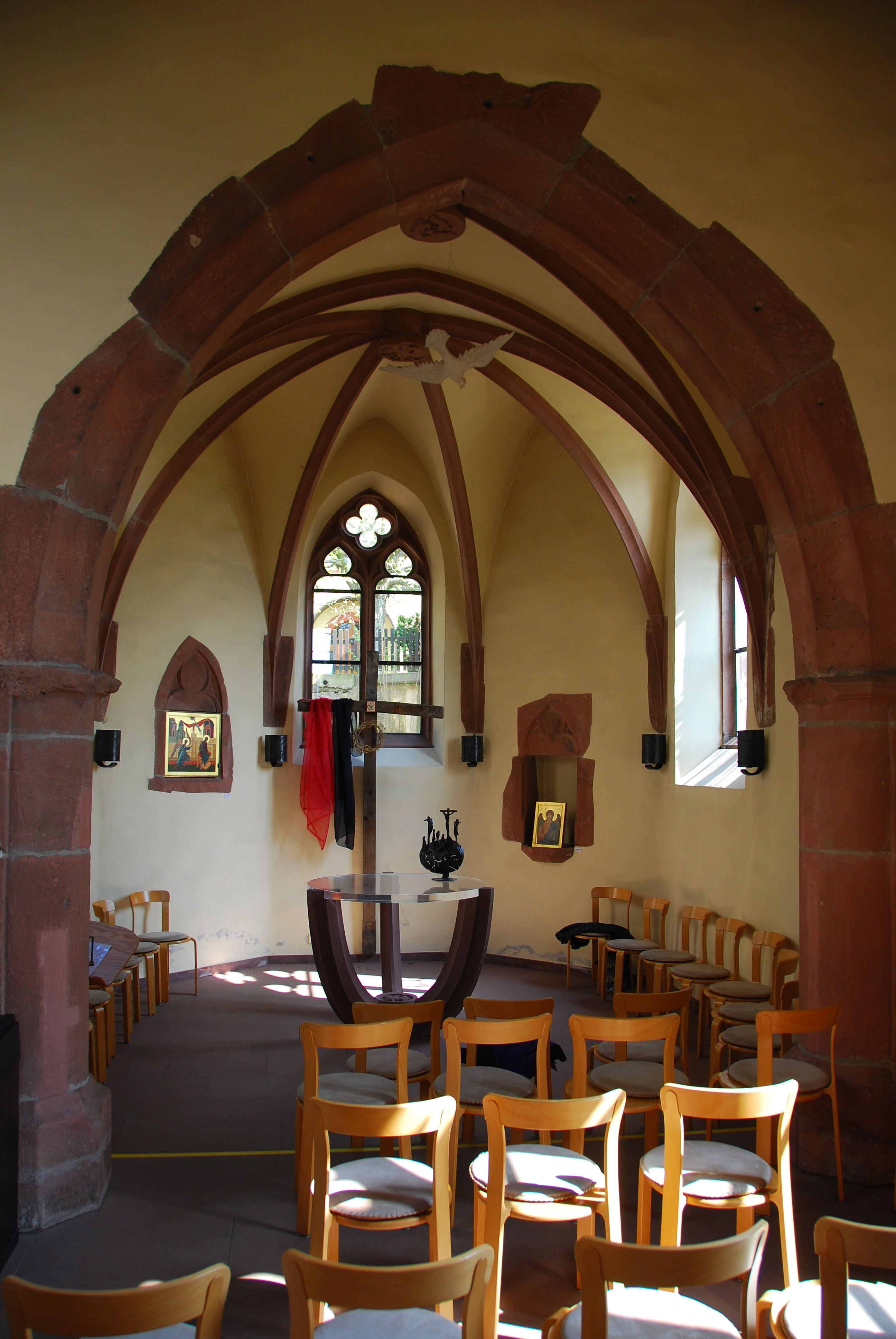 Interior of the chapel at Schloss Reichenberg, Reichelsheim, decorated for Good Friday